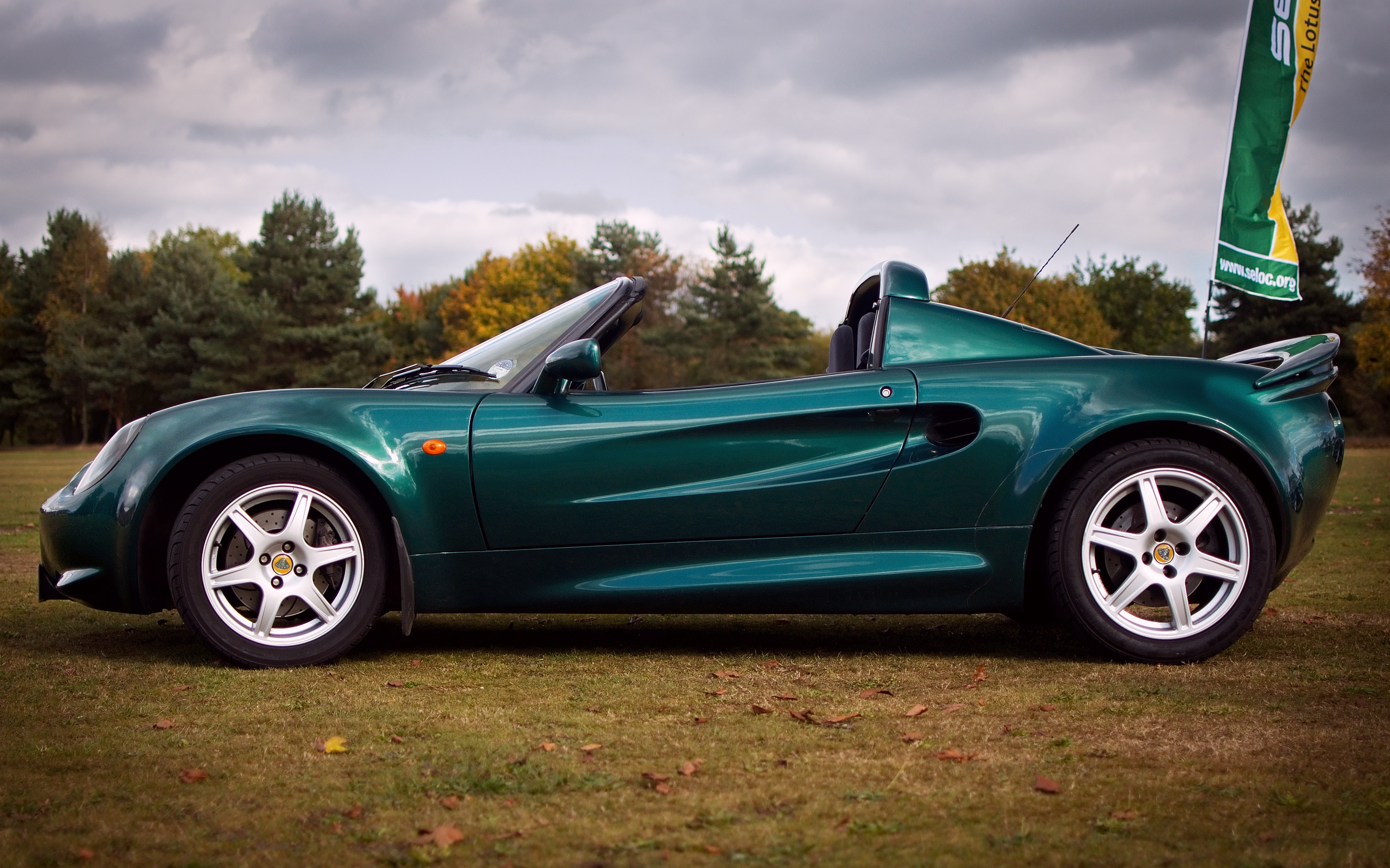 Lotus Elise Series 1, 111S version. Visual notes: as it's a 111S it has a rear spoiler, but unlike the standard 111S this one has it raised slightly on raiser blocks (like a Sport 160). The wheels are the standard 111S 6 spoke wheels. The brake discs are non-standard grooved and drilled. The paint colour is Lotus Racing Green, a metallic green. In the background you can see a flag for the lotus owners club - I didn't deliberately park near it for the shot, I promise!